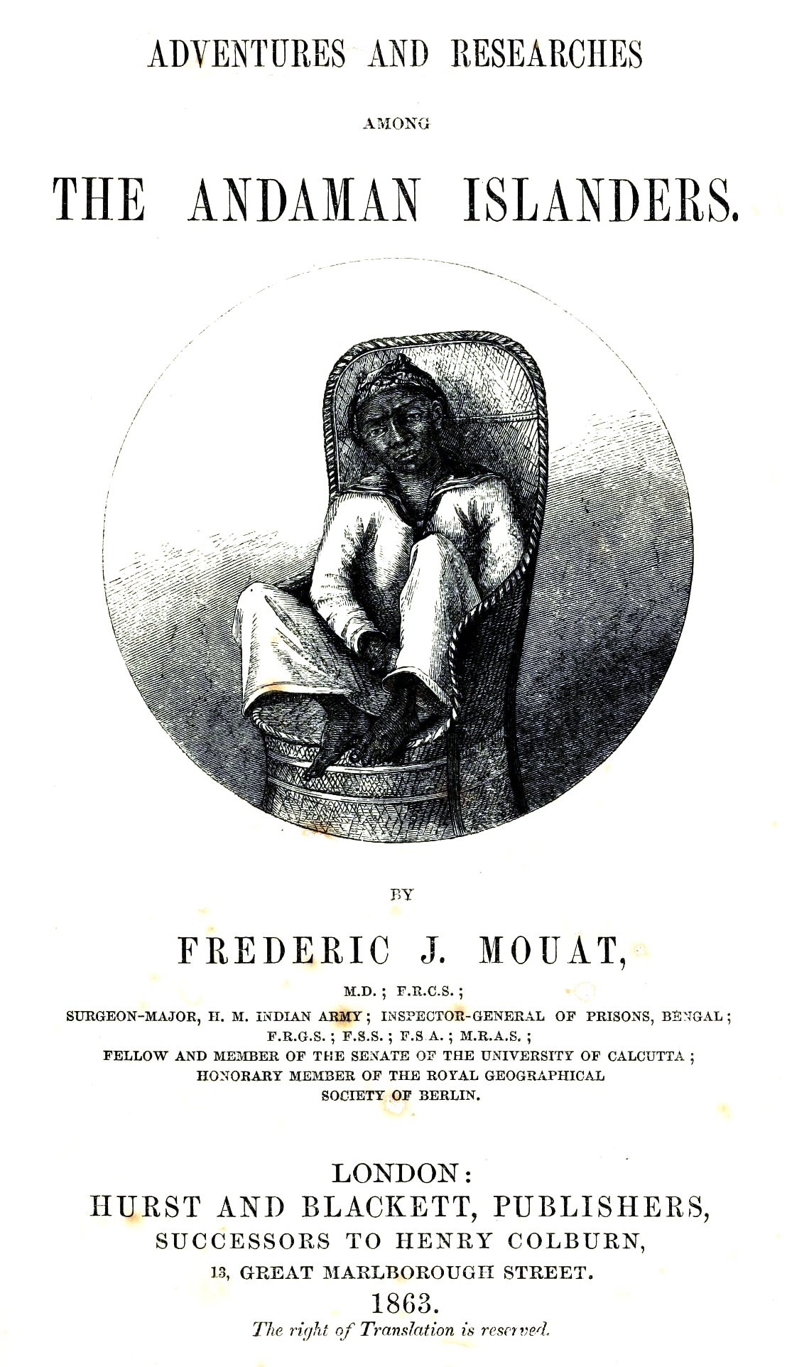 Title page of Mouat's book showing John Andaman